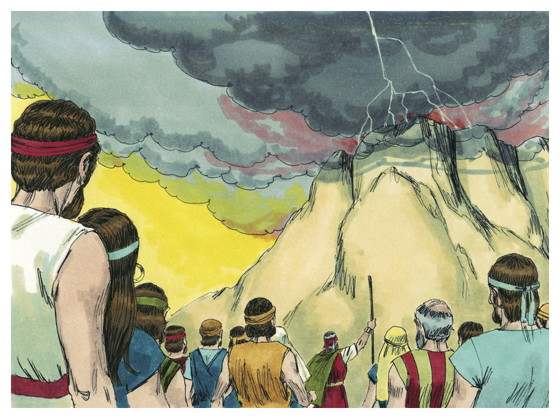 Biblical illustration of Book of Exodus Chapter 20